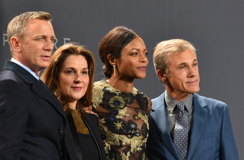 Actor Daniel Craig, producer Barbara Broccoli, actress Naomie Harris and actor Christoph Waltz attend the German premiere of the new James Bond movie 'Spectre' at CineStar on October 28, 2015 in Berlin, Germany. More Photos At